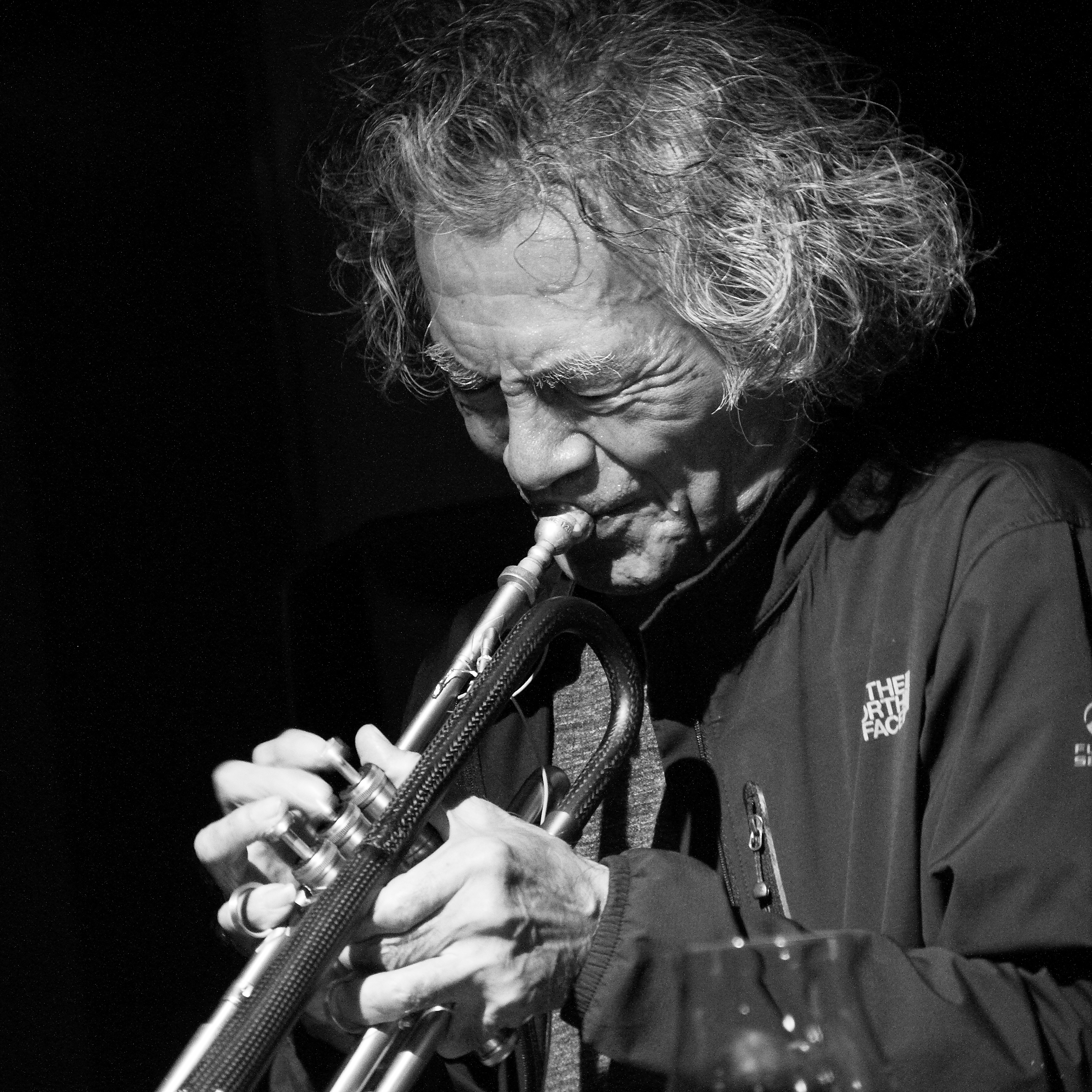 Japanese trumpet player Toshinori Kondo in concert at Club W71, Weikersheim.